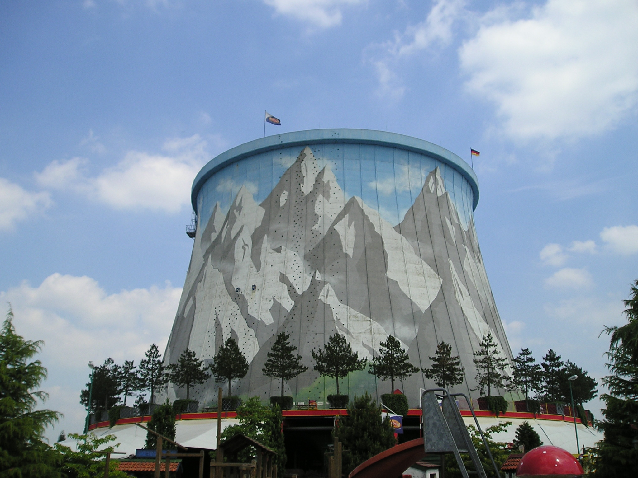 Cooling tower used as climbing wall in Wunderland Kalkar